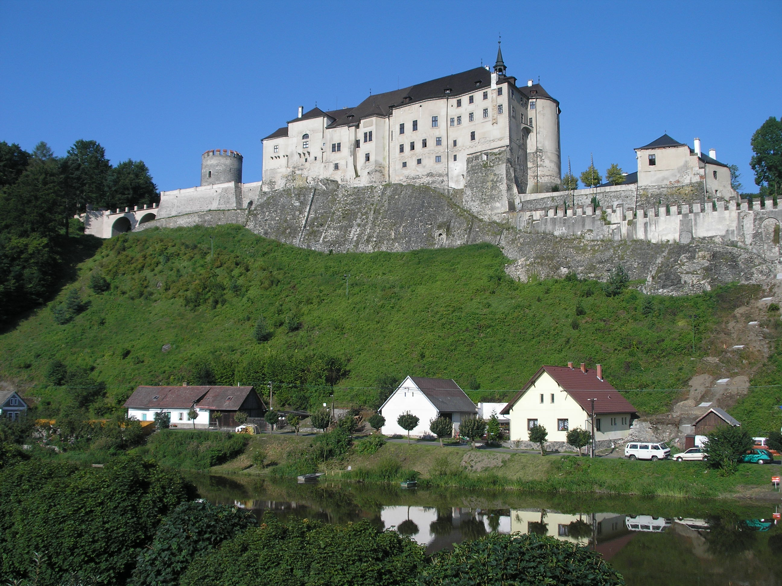 Český Šternberk Castle, (Czech Republic)